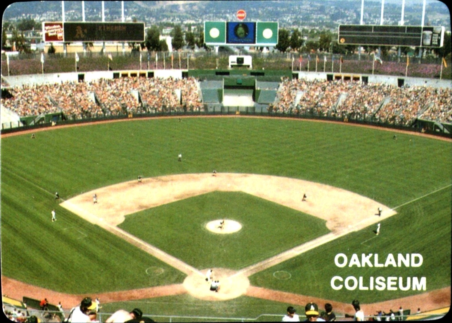 The checklist card of the 1985 Mother's Cookies Oakland Athletics trading cards set. An interior photograph of the Oakland Coliseum during an Athletics baseball game appears on the front of the card and a checklist of all 28 of the trading cards in the set appears on the back. The card is numbered #28 in the set.